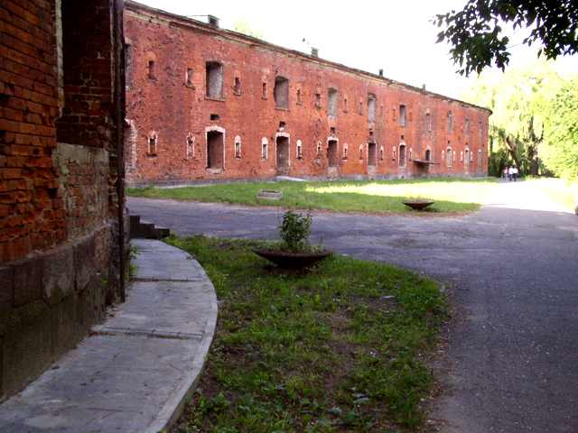 Brest Fortress. A stretch of the ring barrack of the Citadel with projecting semi-tower on the left.